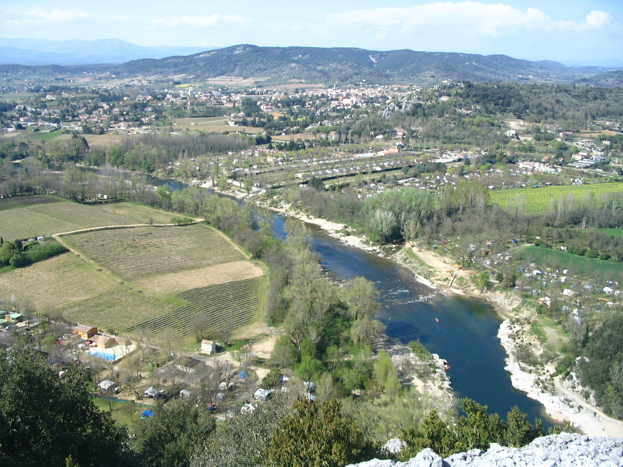 Vallon-Pont-D'Arc and the Ardèche river, France. View from La Costette on the right bank of the Ardèche river, on the commune of Sampzon.